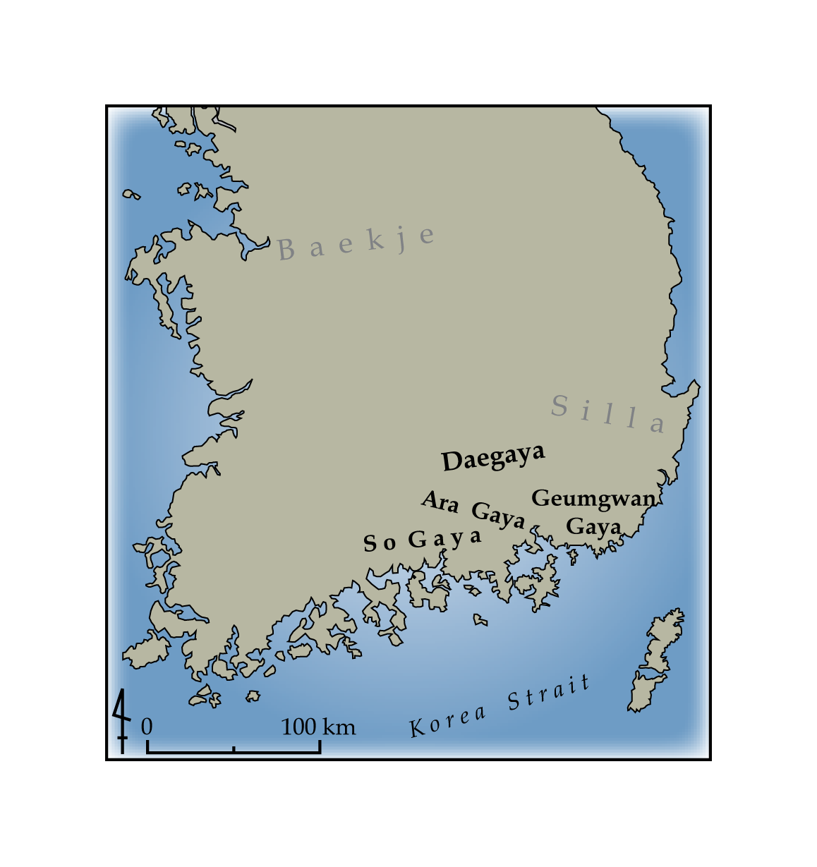 Phlegm, self-made, Dec. 2007